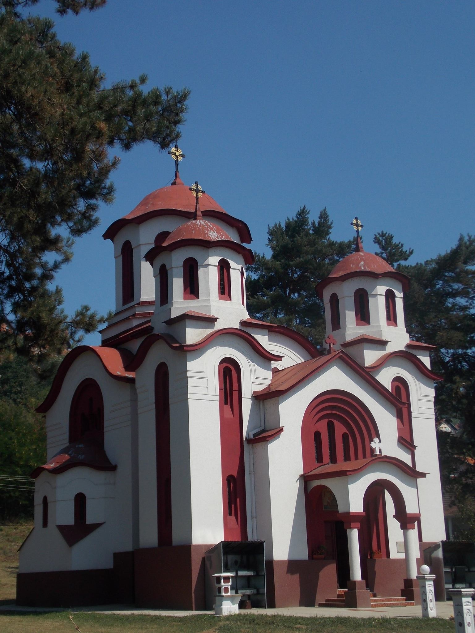 Црква Св. Јован Крститељ у Грделици